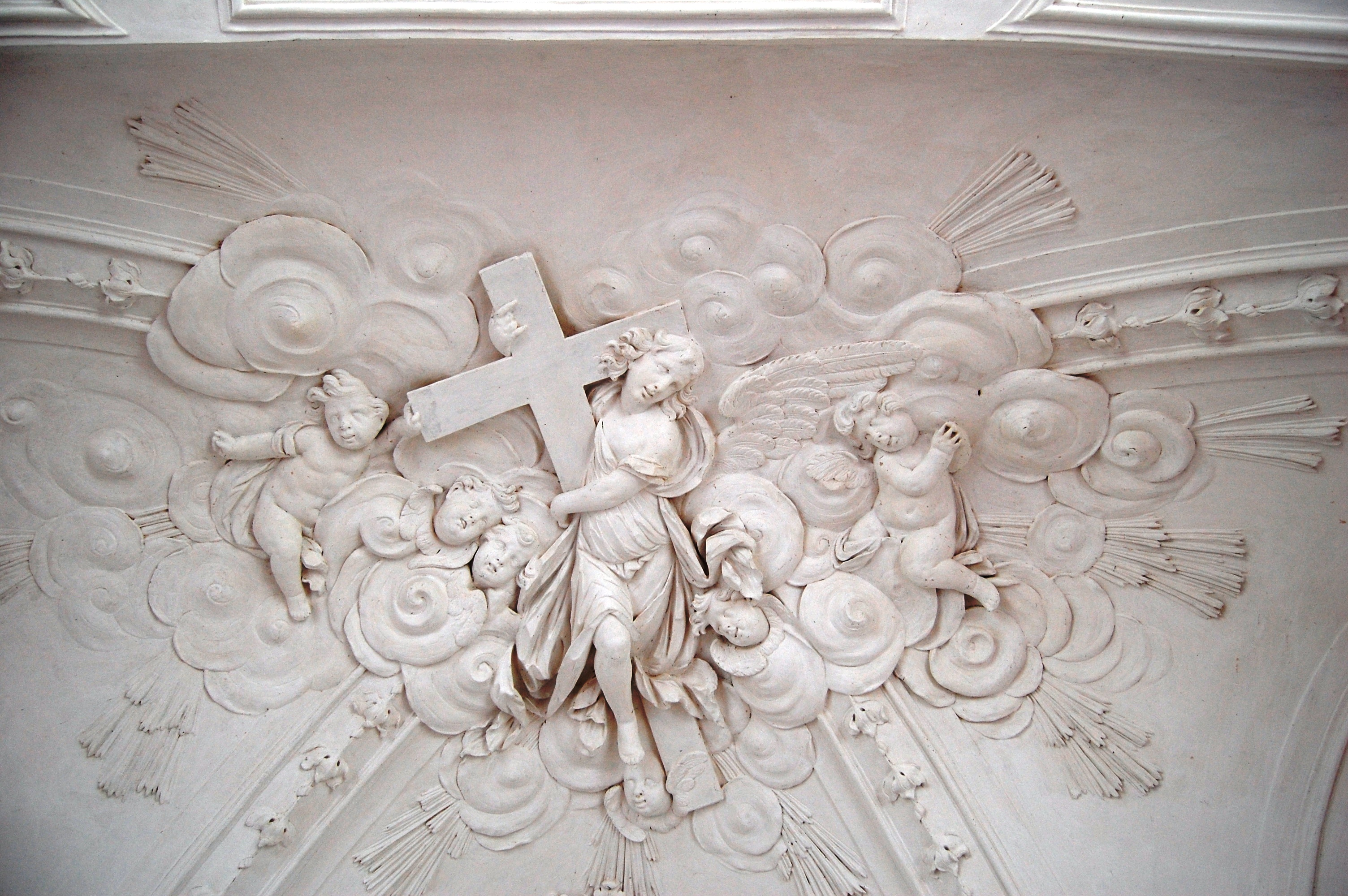 Germany, Hesse, City of Heusenstamm, plastering, stucco, chapel "zum heiligen Kreuz"